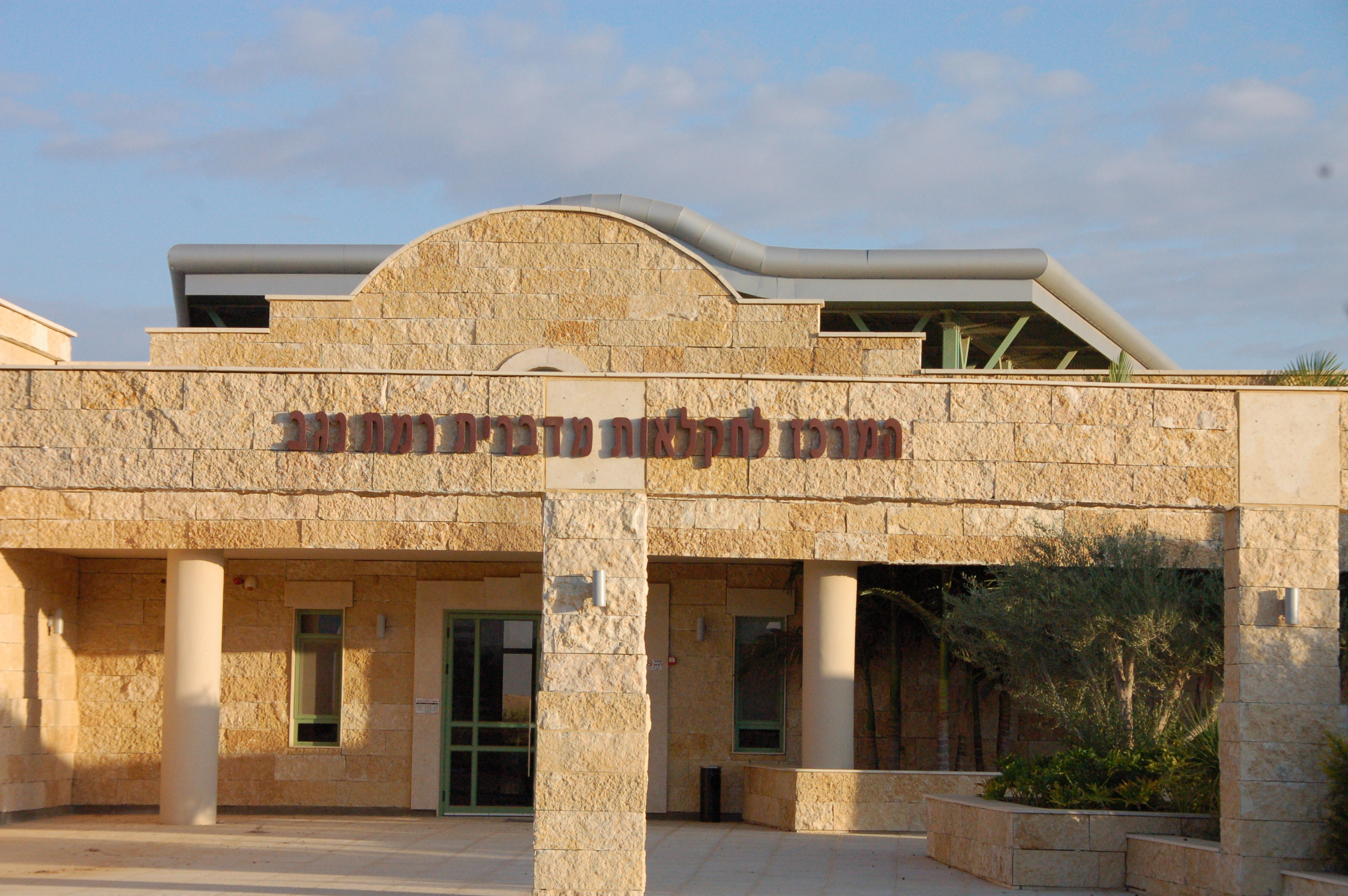 הבניין של המרכז לחקלאות מדברית